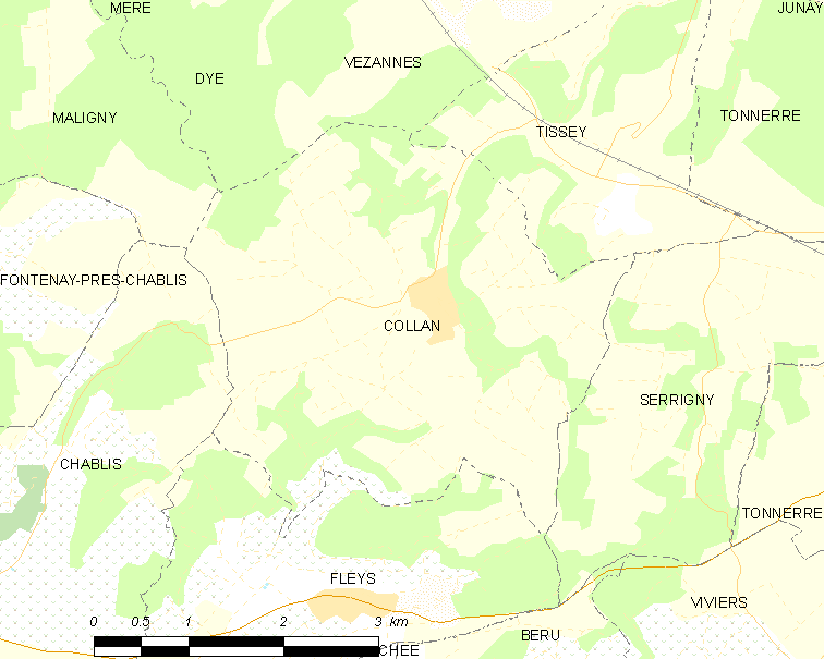 Map of French municipality Collan